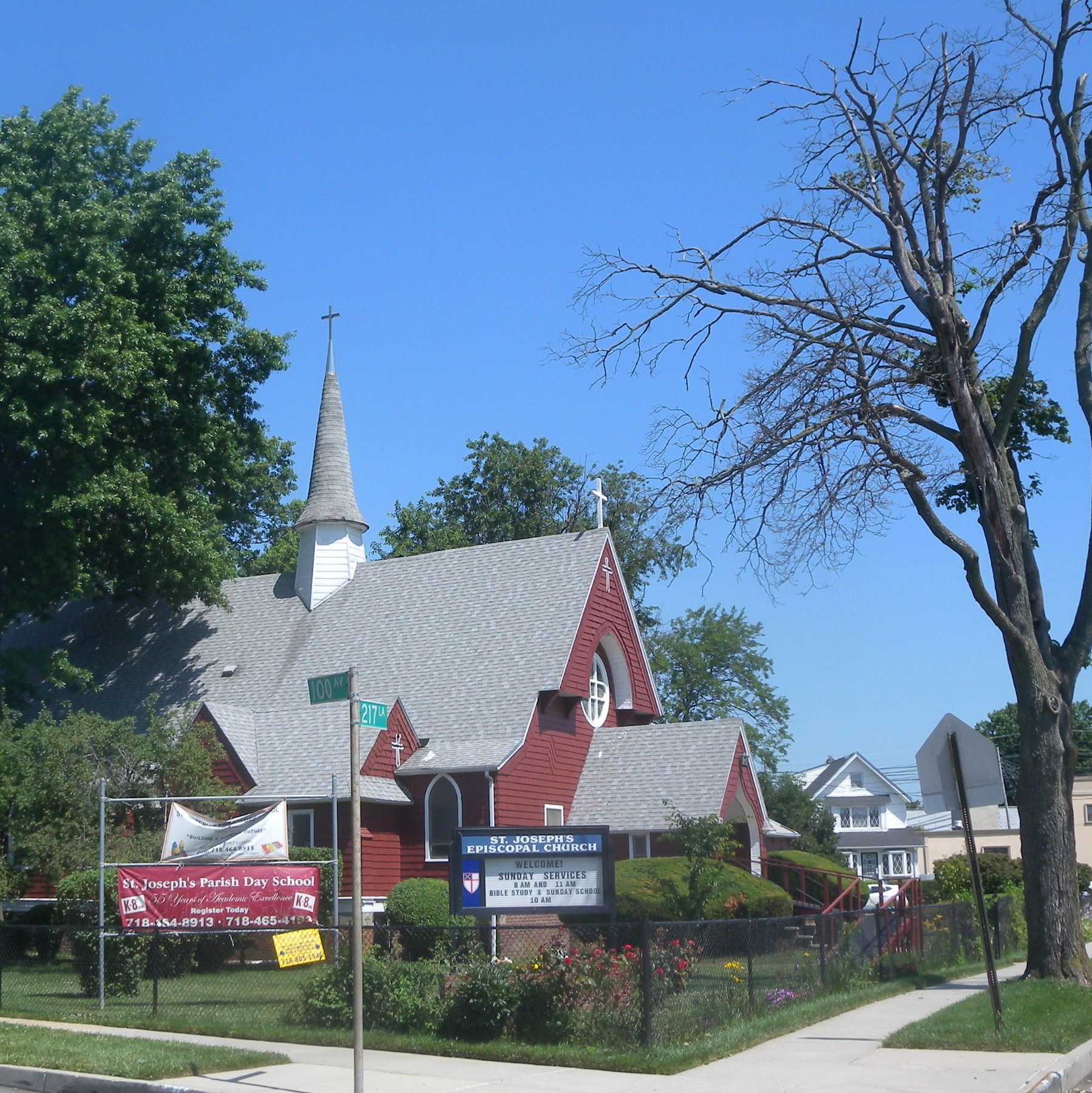 Looking west at St Joseph's on a sunny late morning.